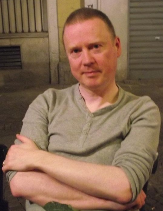 Scottish writer Allan Guthrie (2012)